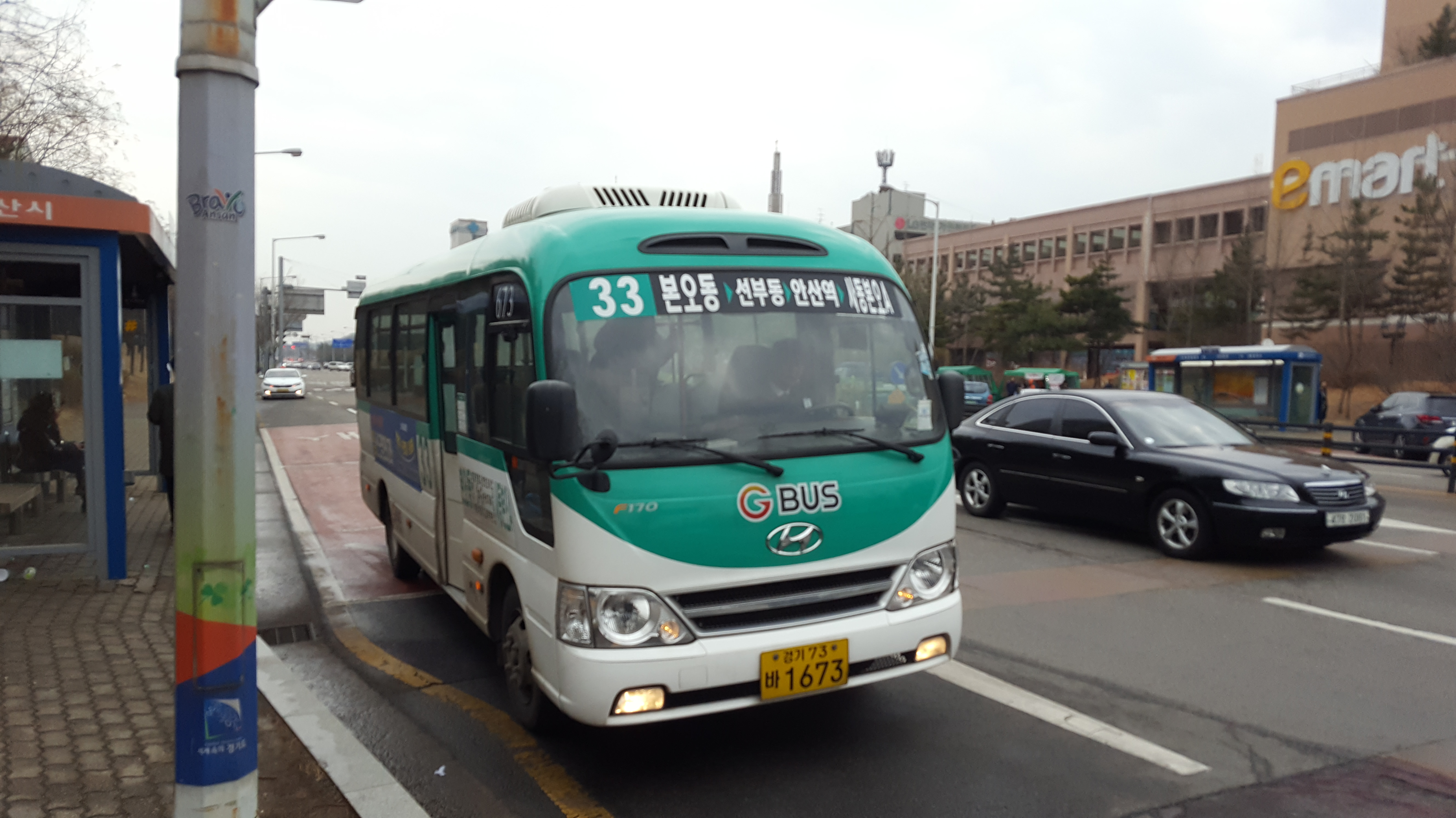 The Ansan Bus Route 33. Taken on 2018.03.04 at Emart Bus stop at Ansan, Korea.